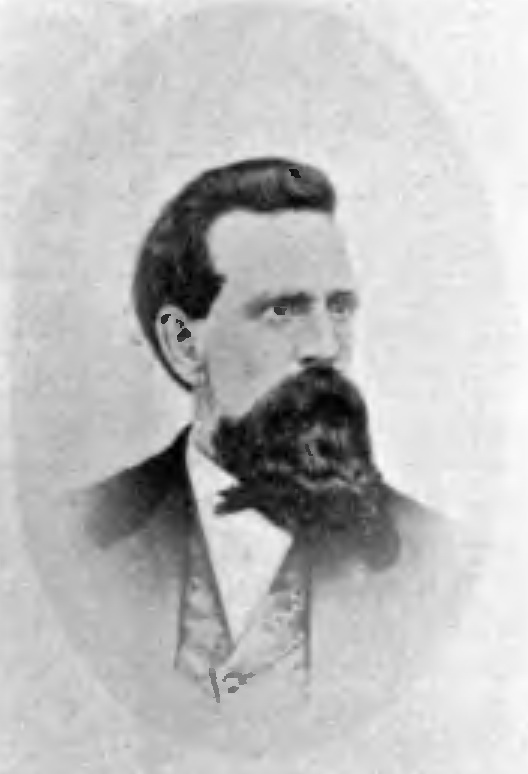 steamboat captain John McNulty. sometime before 1895